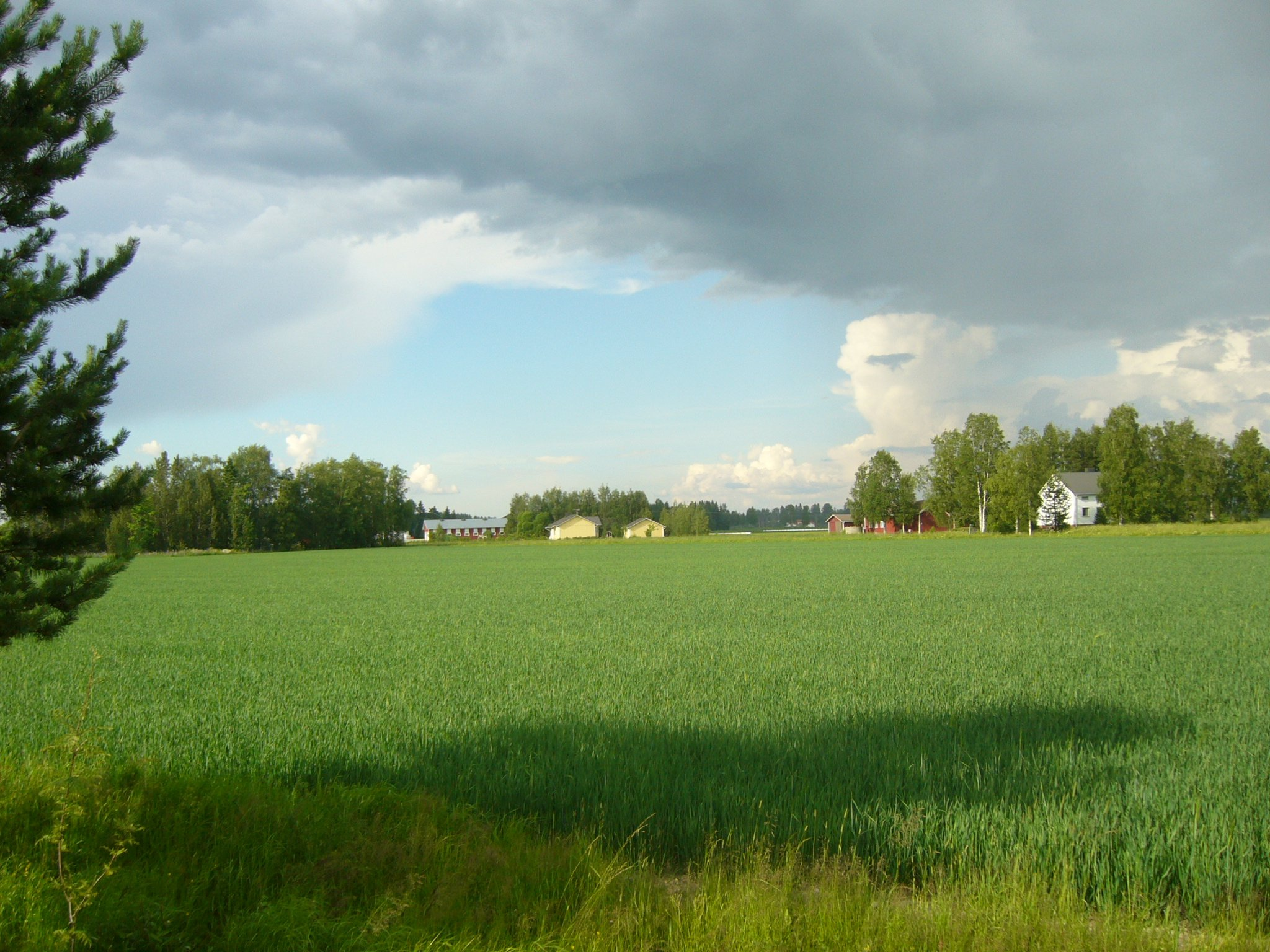 Village of Filppula, Kauhajoki, Finland.